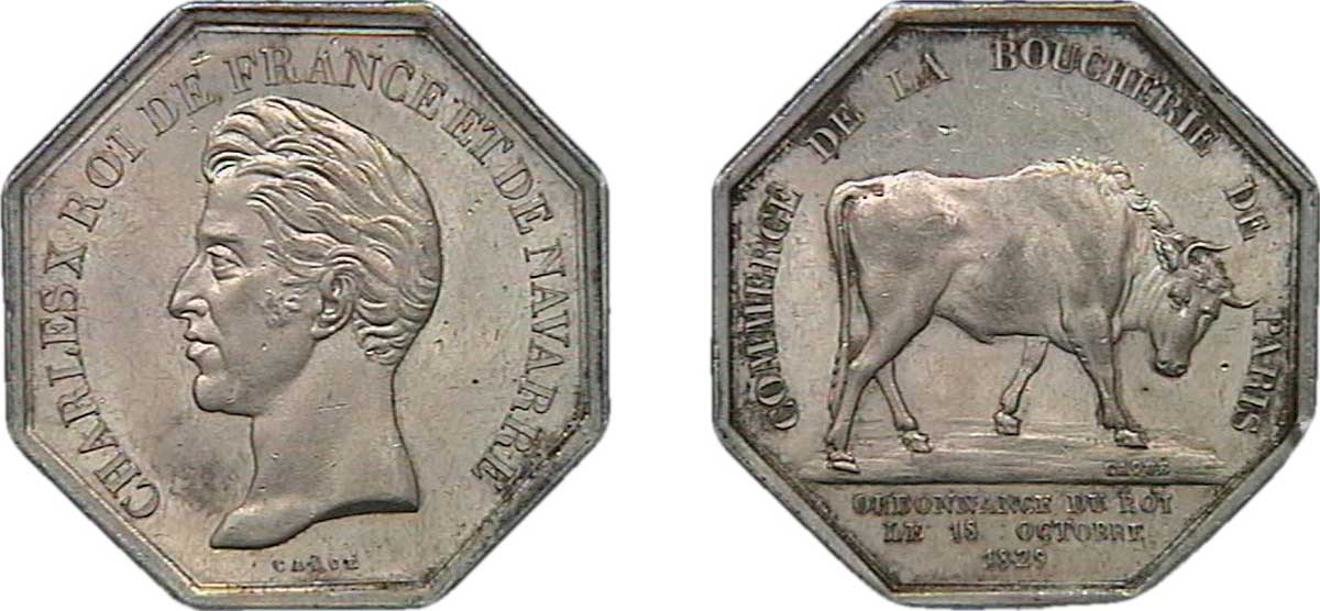 Associations professionnelles- syndicats des boucheries-charcuterie. Argent frappé en 1829